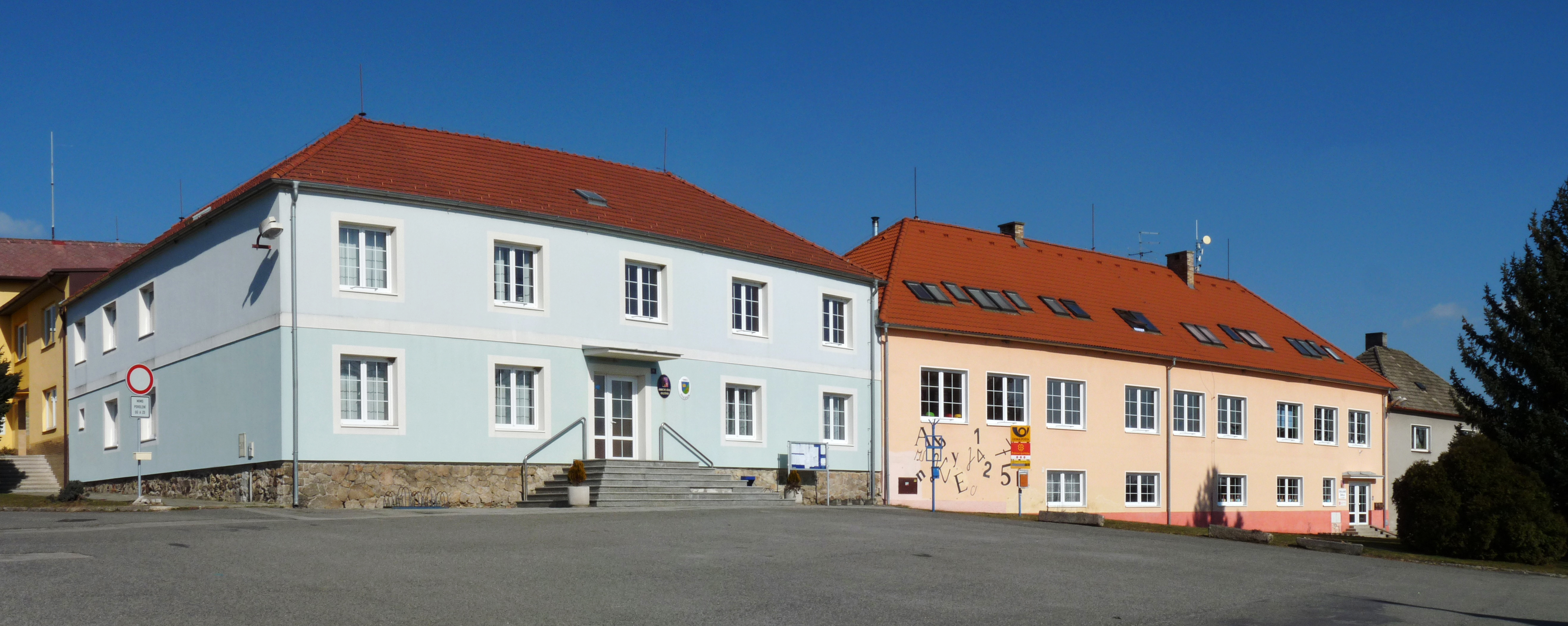 Municipal office building and the primary school in the village of Olešník, České Budějovice District, Czech Republic.